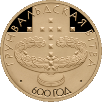 "The Battle of Grunwald. The 600th Anniversary" Gold commemorative coins, denomination: 20 rubles, Belarus